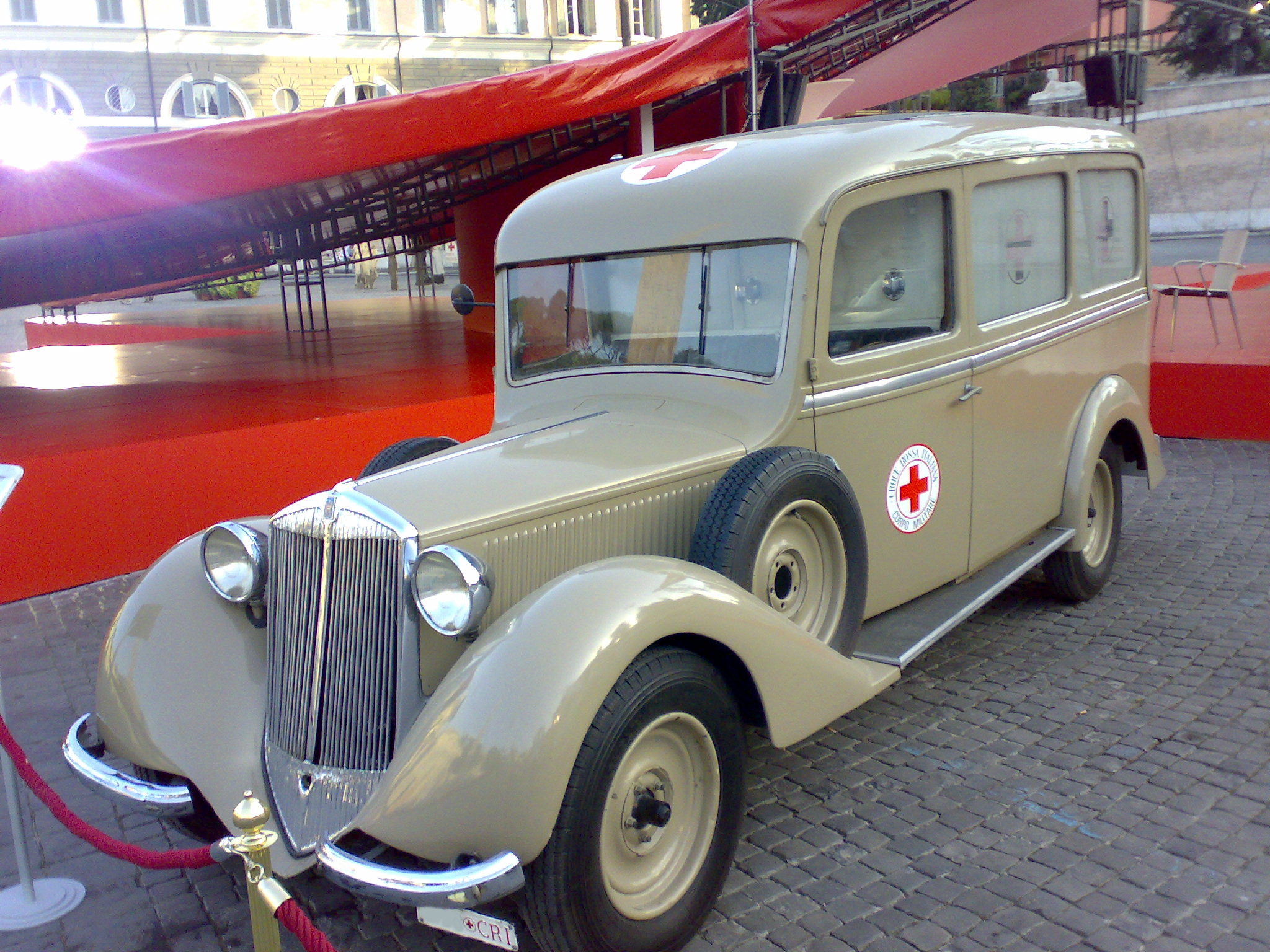 Bianchi S9 (1938) Ambulance (CROCE ROSSA ITALIANA, CORPO MILITARE) by "Carrozzeria Garavini"